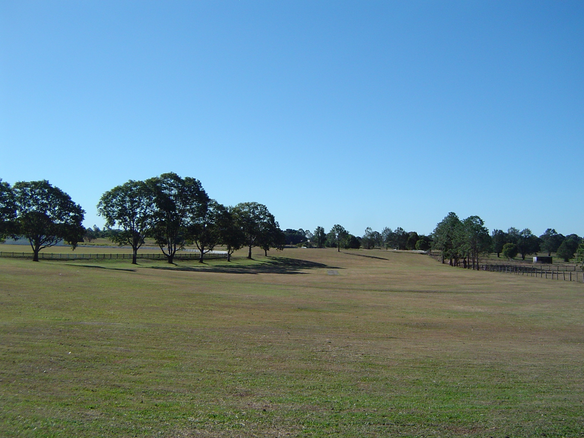 Photo of Newstead Park at Buccan in Logan City, Queensland, Australia.